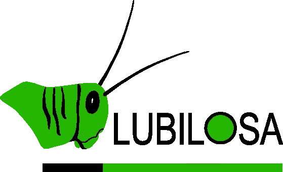 Logo of the former LUBILOSA programme